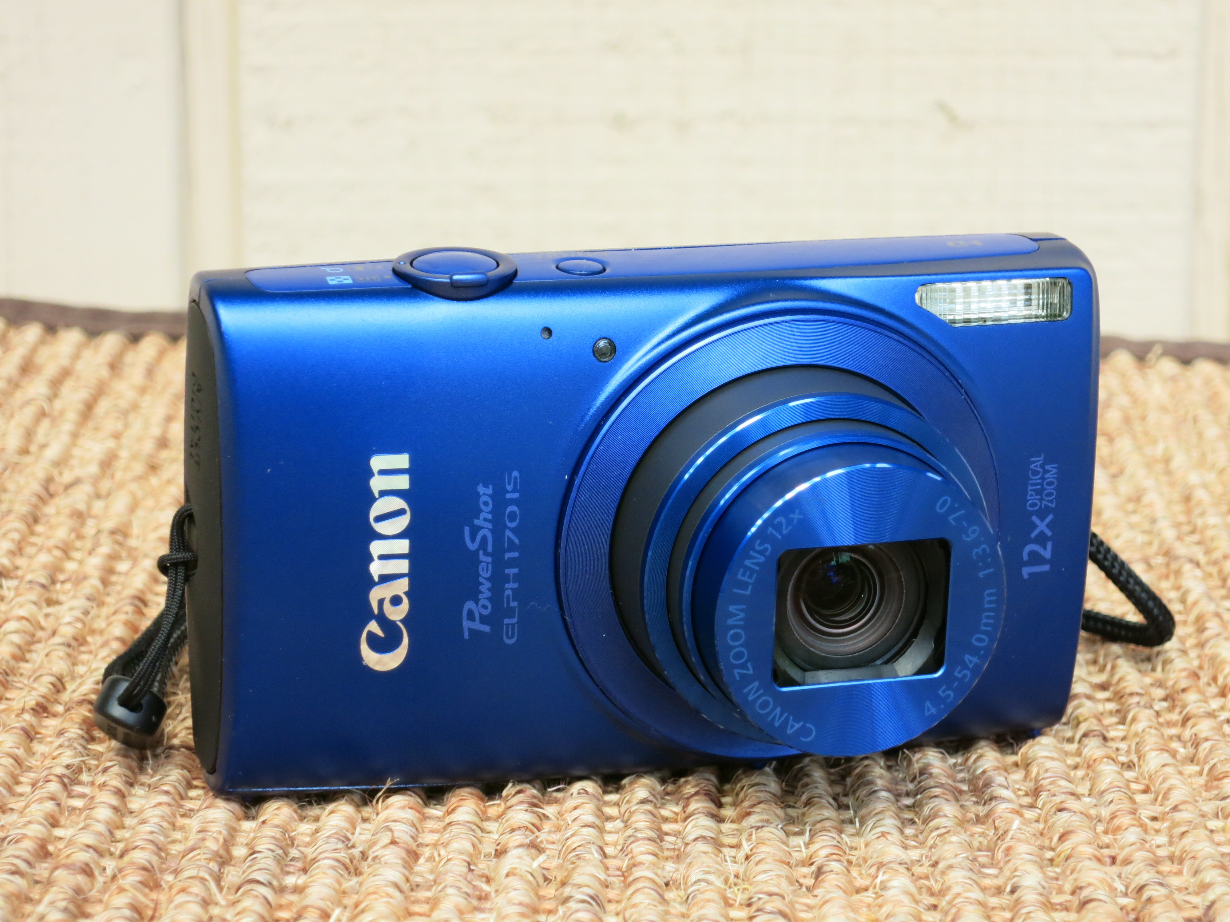 Canon PowerShot Elph 170 IS (Canon Digital IXUS 170)